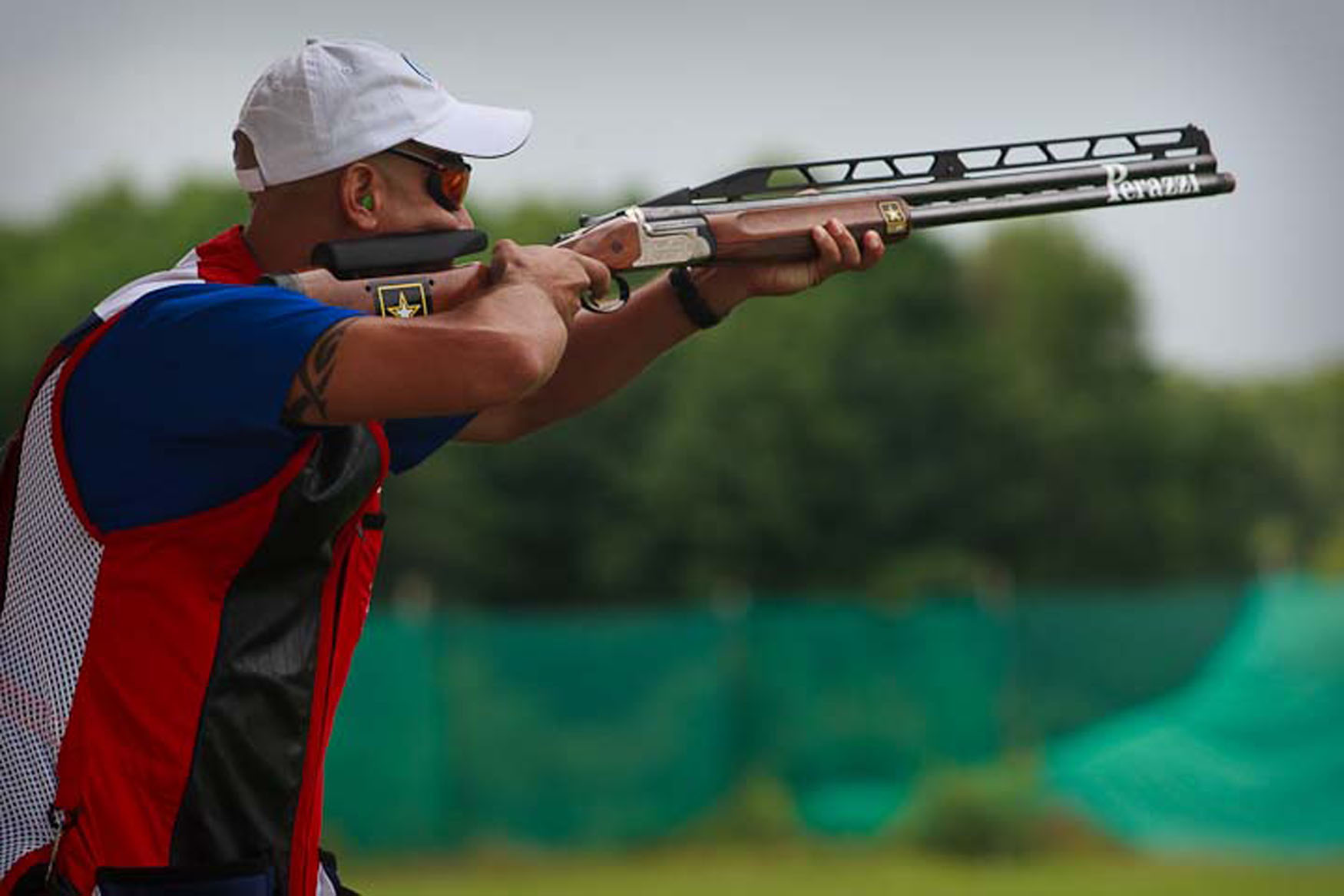 U.S. Army Marksmanship Unit Soldier Spc. Jeff Holguin competes in the final round of the Men's Double Trap event at the 2009 International Sport Shooting Federation World Championships, Aug. 13. Holguin, a 2008 Olympian, won a silver medal. See more at Soldier takes silver at world shotgun competition